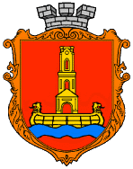 Coat of arms of Kopets Rivne Oblast Ukraine approved by Kopets city counsel September 18 1995